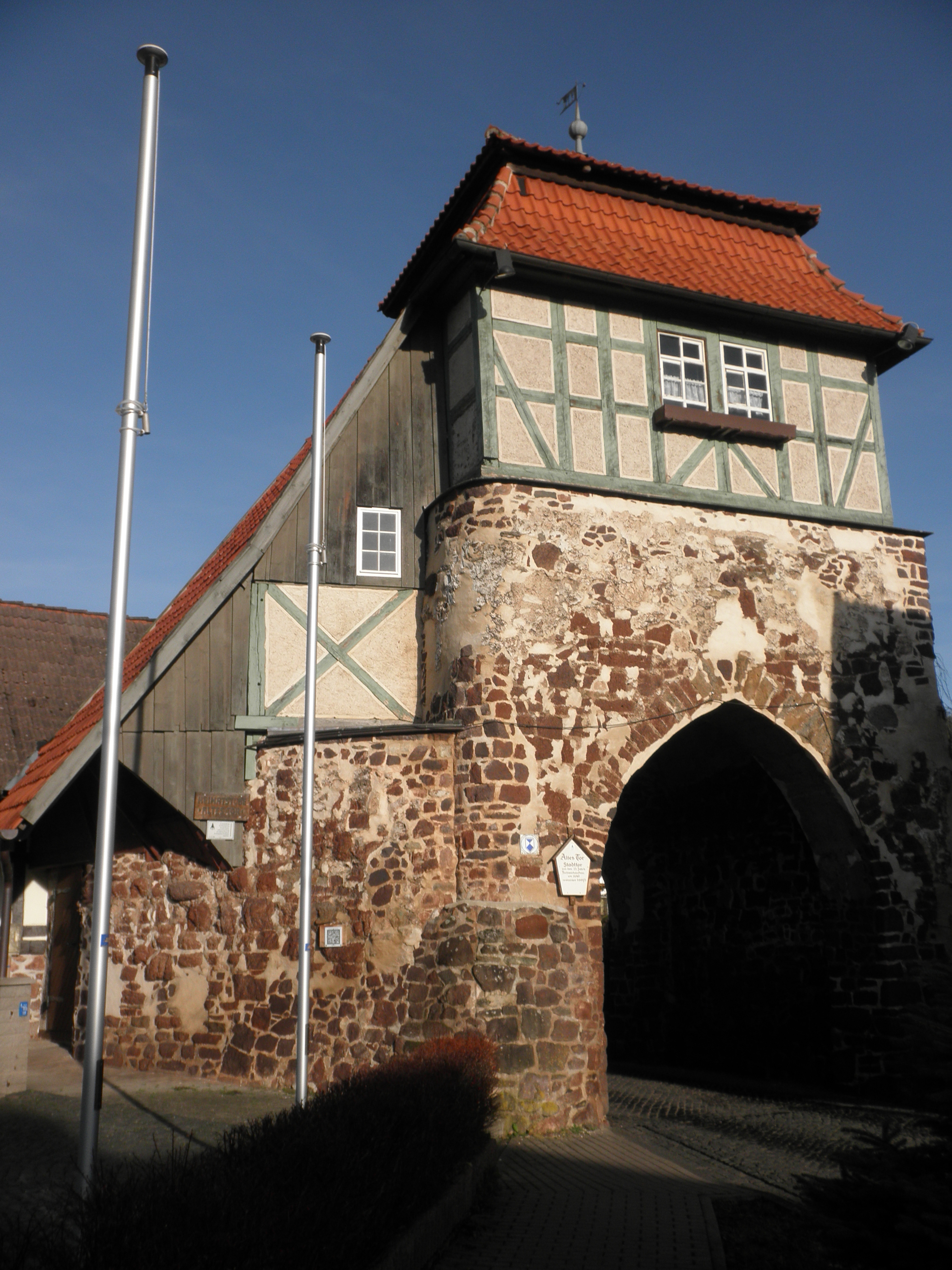 Old Town Tower in Neustadt (Harz) in Thuringia